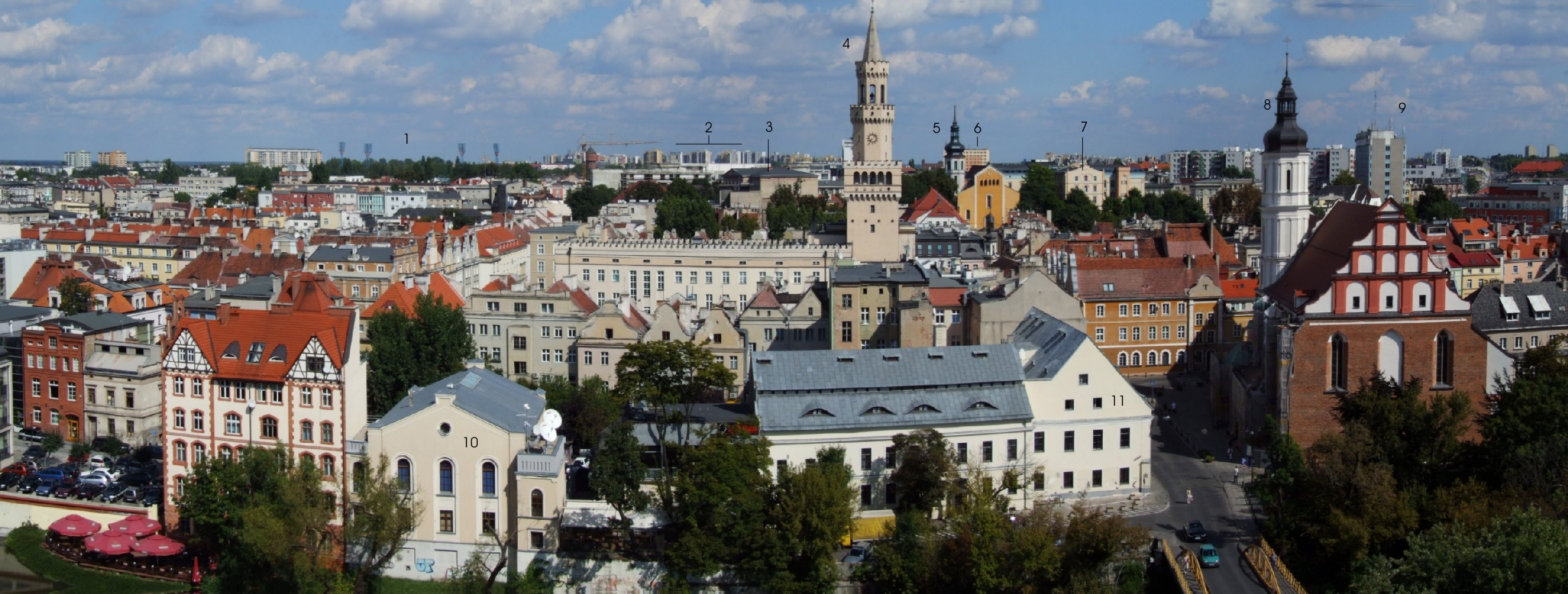 Opole (Oppeln) - Old city. View from Piast tower 1 - Football stadium of Odra Opole 2 - Osiedle Armii Krajowej (formerly ZWM) 3 - Secondary school Zespół Szkół Mechanicznych 4 - City hall 5 - Church of Our Lady of Sorrows and Saint Adalbert 6 - Dormitory "Kmicic", University of Opole 7 - Colegium Maius - main bulding of University Opole 8 - Church of Trinity 9 - "Skyscraper" on crossroad of Ozimska nad Reymonta streets 10 - Former old synagogue, now bulding of television TVP Opole 11 - bulding of State Archive